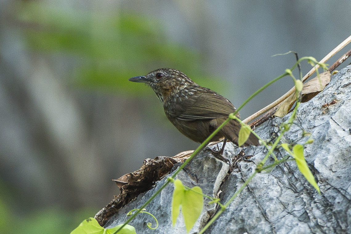 Limestone Wren-Babbler - Central Thailand_S4E0918